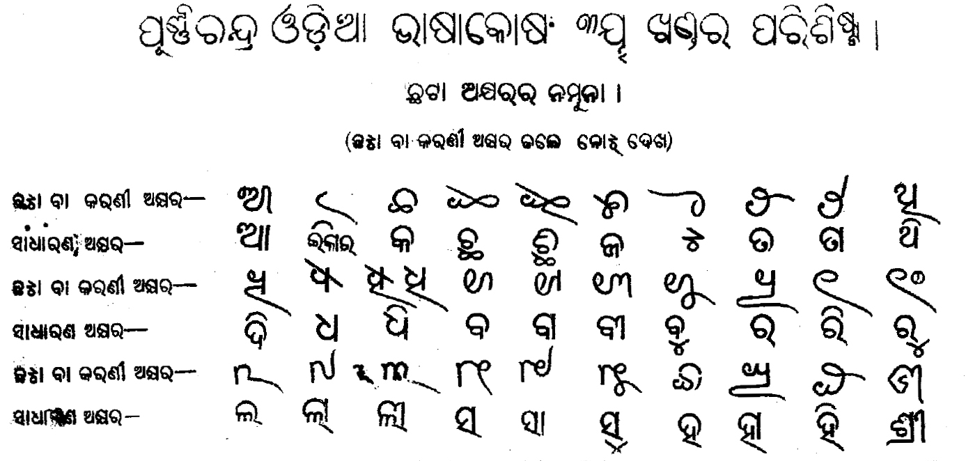 Koroni or Karani script (also Chata script) is an established writing system in the pre-Independence Orissa (Odisha) region in South Asia. The writing system was primarily used by the Korono/Karana people who were working for documentation in the royal courts. The name Koroni/Karani is derived from Koroni/Karani, a metal stylus that was used for writing on palm leaf and then on paper.